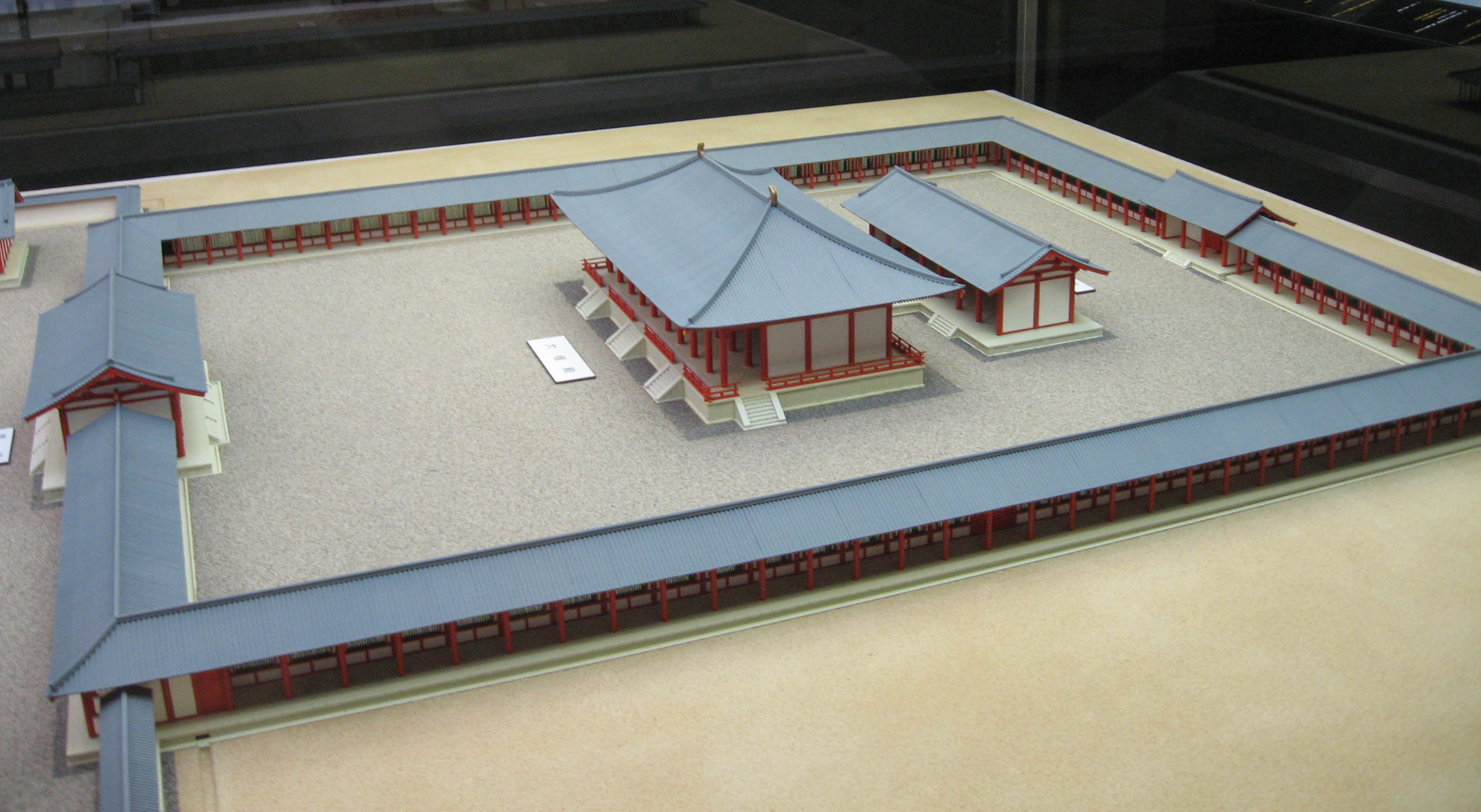 Scale model of Daigokuden of Nagaoka palace.